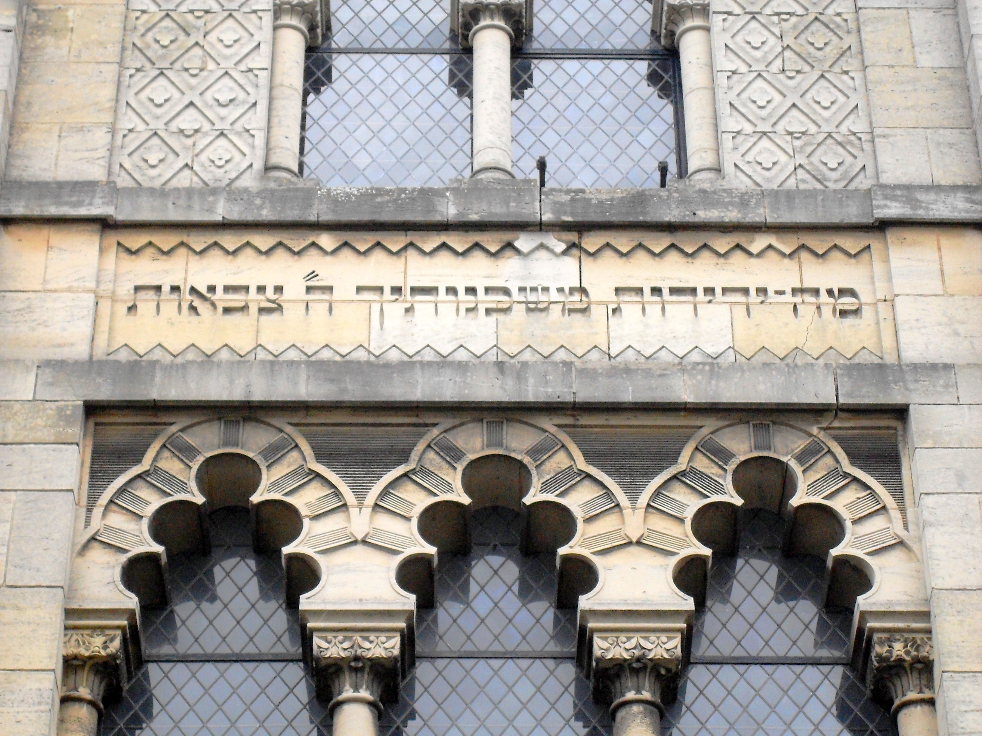 Synagogue of Chalons Marne (51) - verse on the facade "How beloved are Your dwelling places, O Lord of Hosts!")